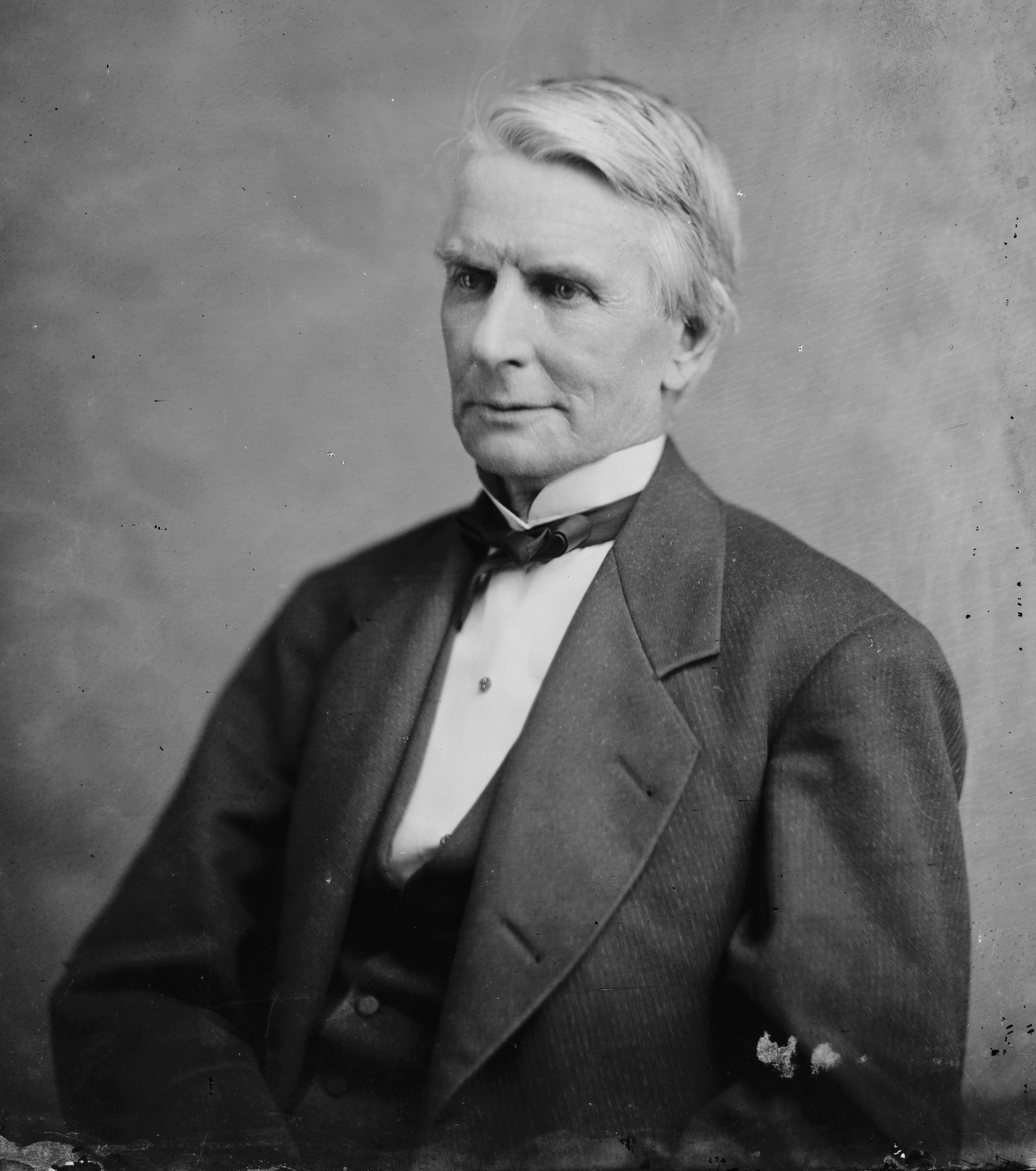 Timothy O. Howe. Library of Congress description: "Howe, Hon. Timothy Otis of Wisc."